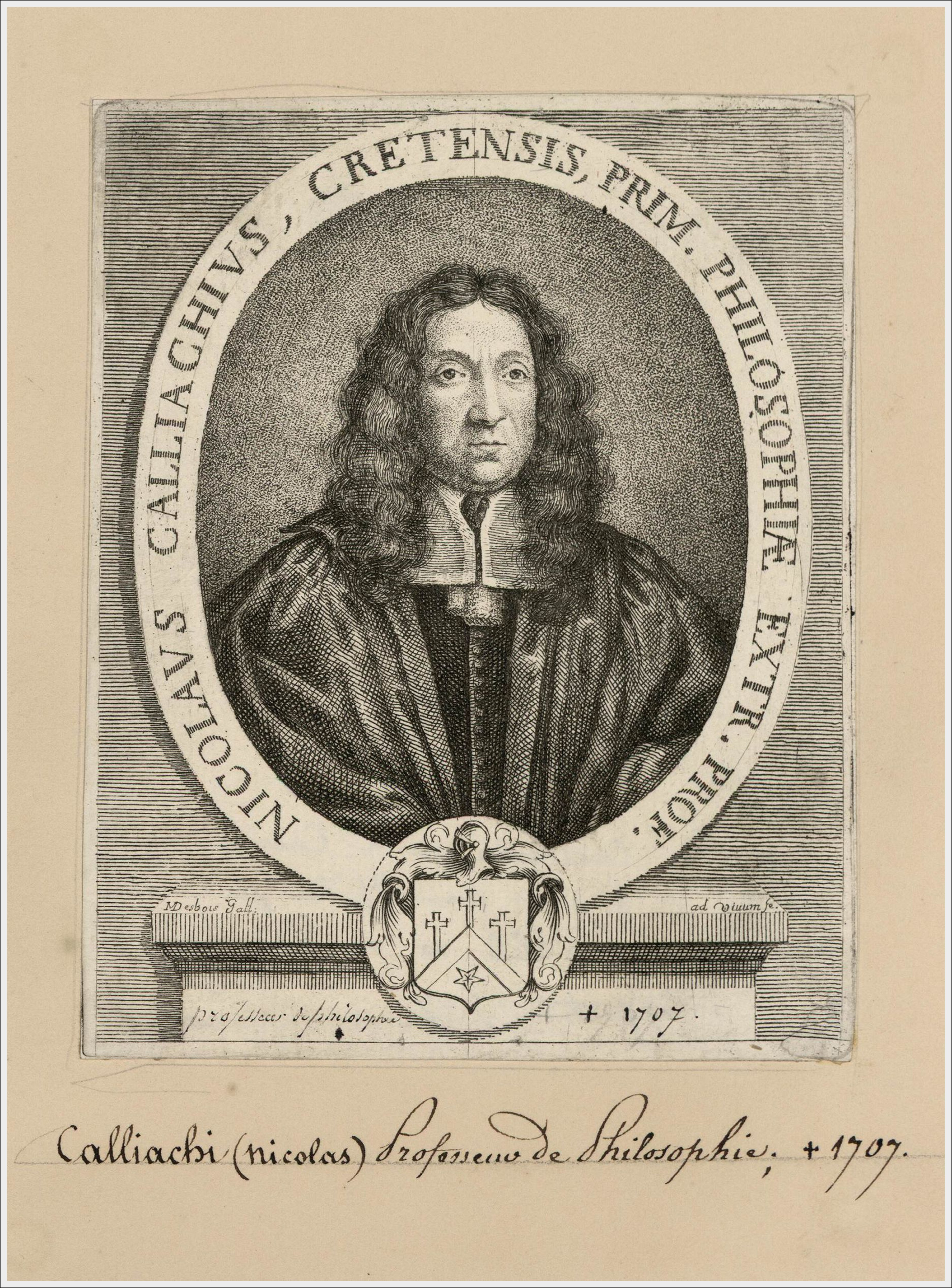 Nikolaos Kalliakis (1644-1707) Greek University Professor, NICOLAUS CALLIACHIUS, Nicolas Calliachi ; Nicolas Calliachi; "NICOLAVS CALLIACHIVS"